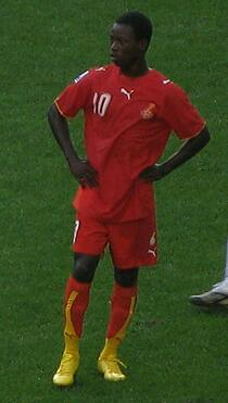 Photo was taken with a Canon PowerShot G7 camera. Ransford Osei; a professional footballer, playing for the Ghana national football team.